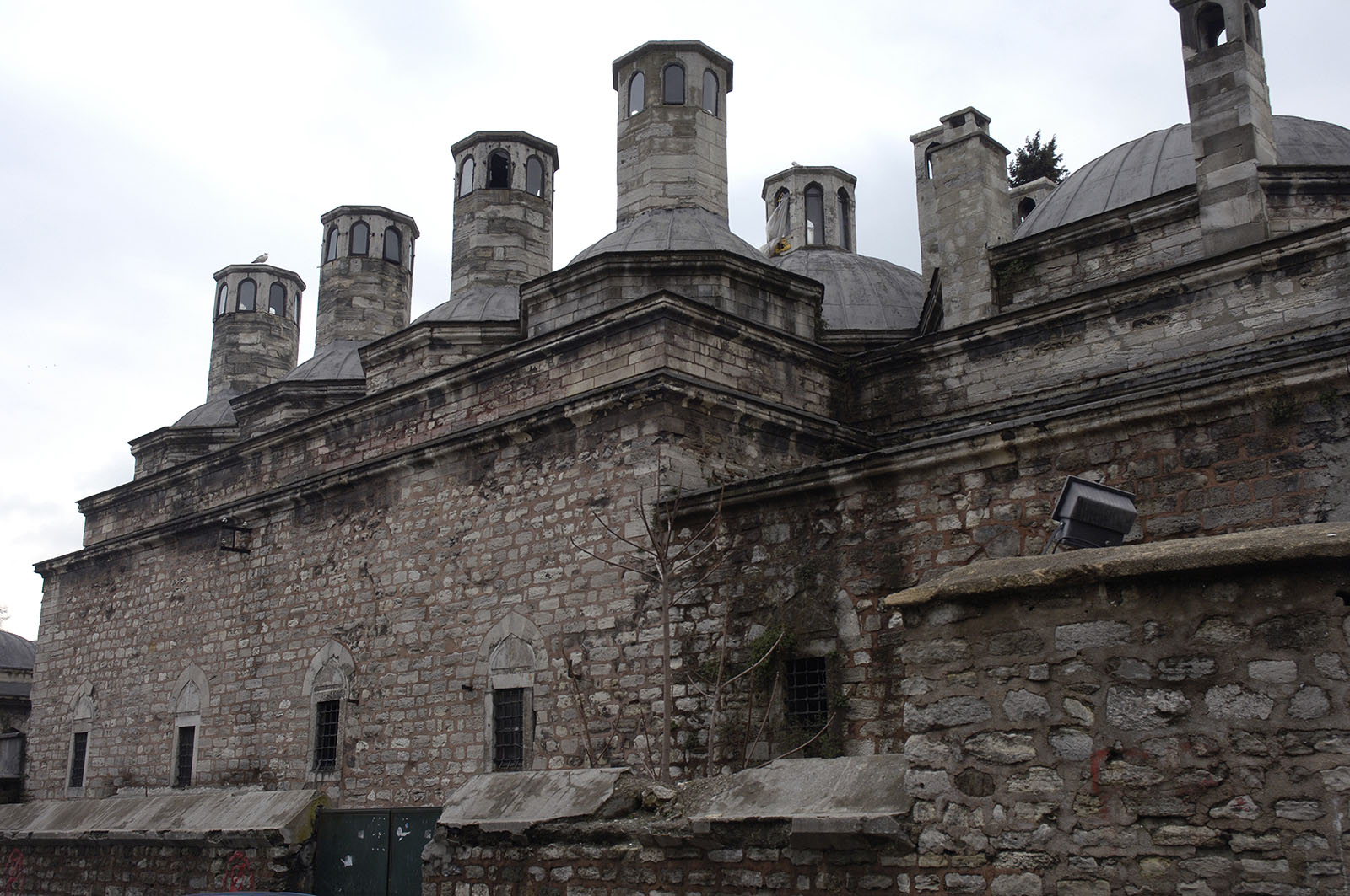 Across a street from the mosque there are the other buildings of the complex. These are the kitchens of the imaret (soup kitchens) with enormous chimneys.